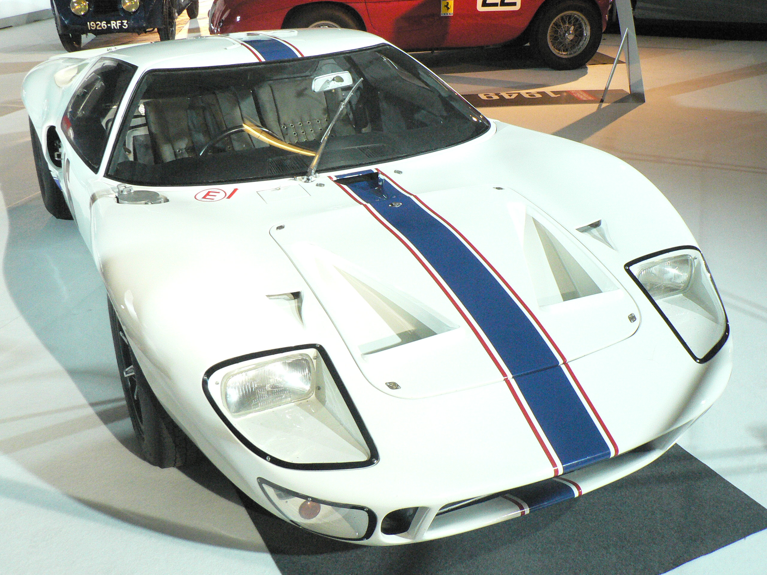 Mondial de l'automobile de Paris (October 2006).Ford GT40 chassis P/1020. "N°16" was its number for the 1967 24 Hours of Le Mans, where it did not finish (drivers: Greder/Dumay). As "n°68", it won the 1967 Coupe de Paris at the Montlhery racing circuit (with Jo Schlesser as driver).